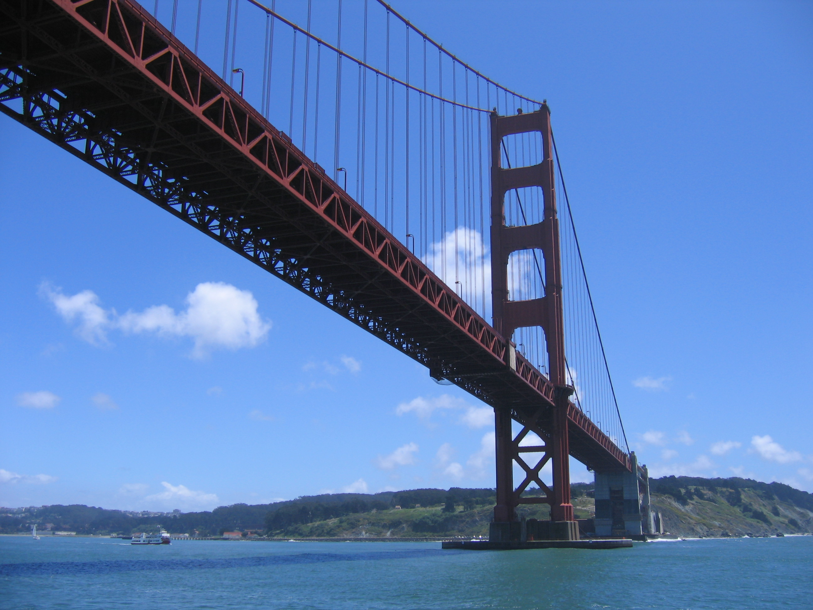 This is a photograph from a boat underneath the Golden Gate Bridge. Of course, the article has plenty of photos, but this one is from underneath, so I think it's okay.